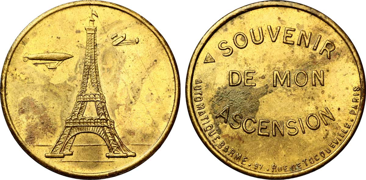 Jeton souvenir de l'ascension automatique de la Tour Eiffel.Ce jeton, au vu des aéronefs, date des premières années du XXe siècle.